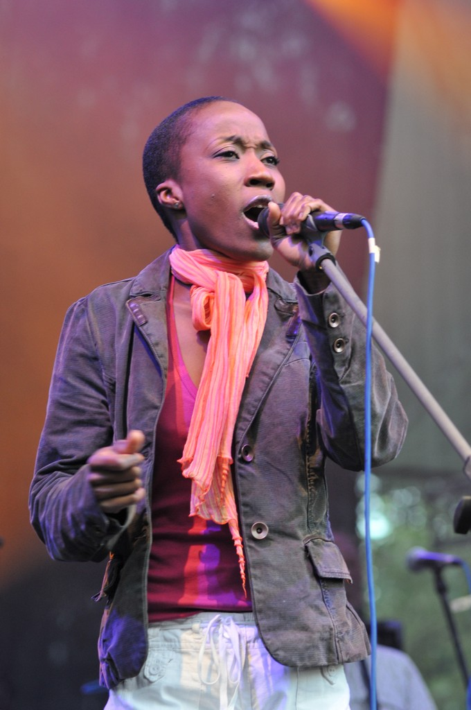 Rokia Traoré singing.